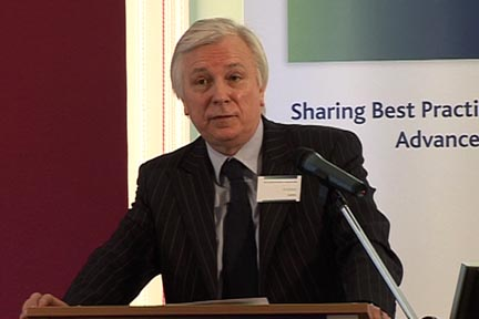 Chair Abbot Standalone meeting 10th May 2011 London